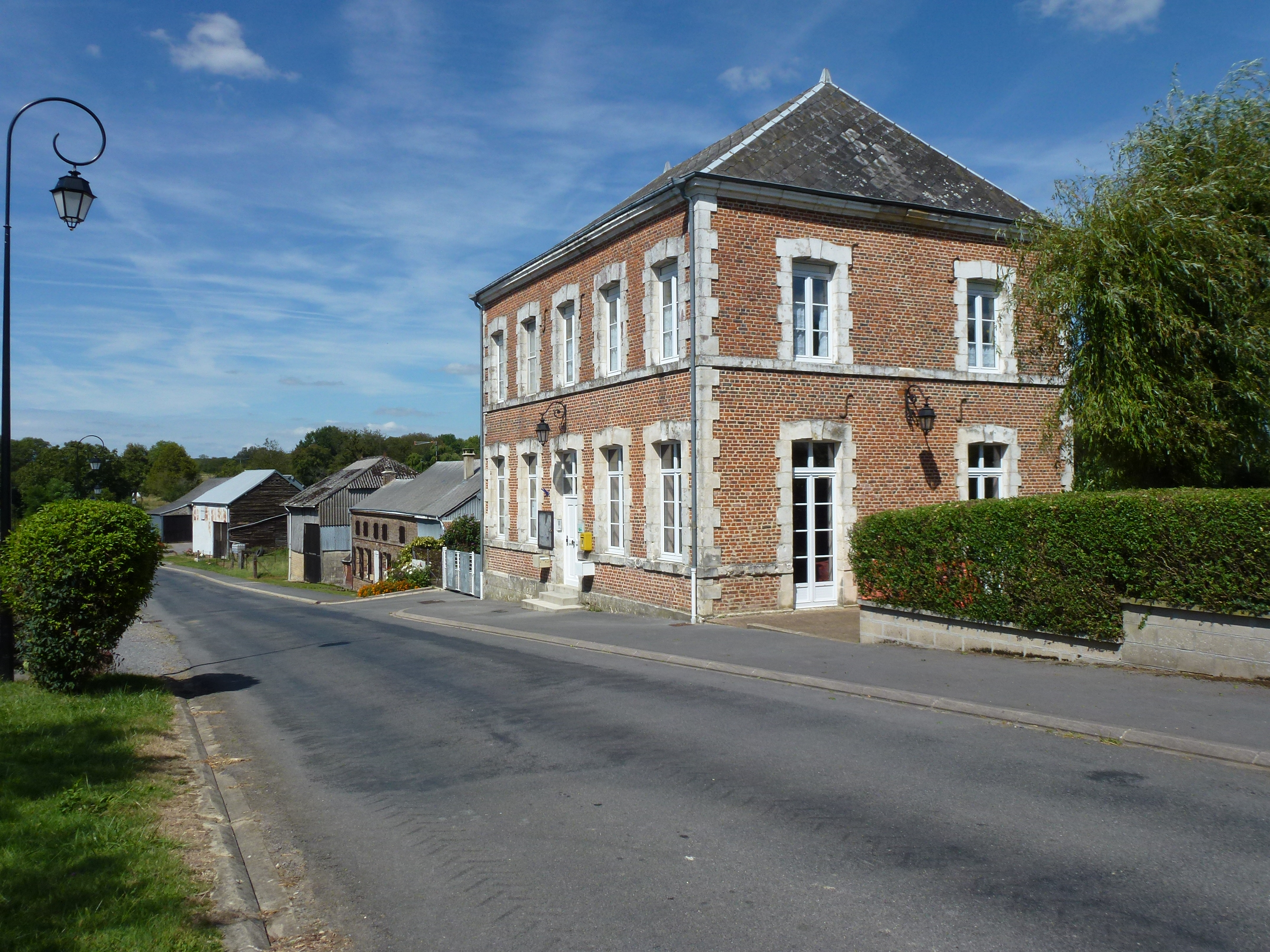 Faissault (Ardennes) mairie